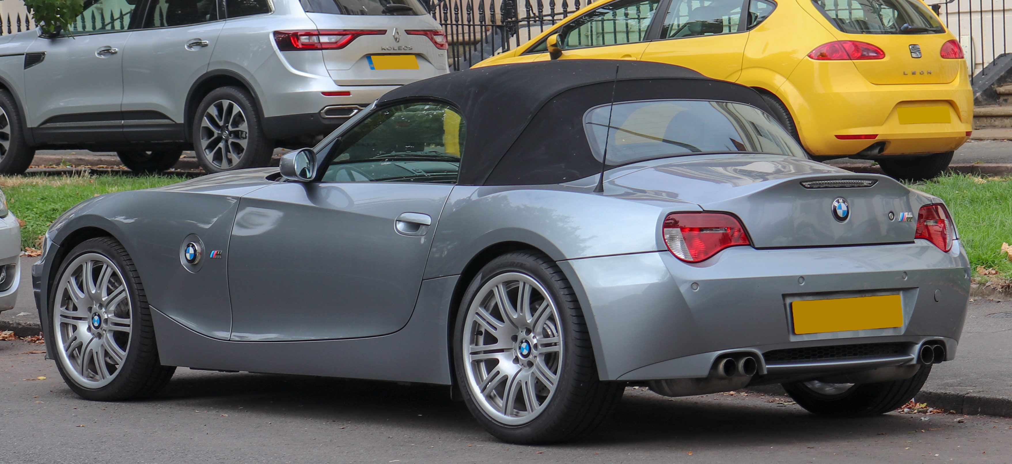 2007 BMW Z4 M 3.2 Rear Taken in Leamington Spa